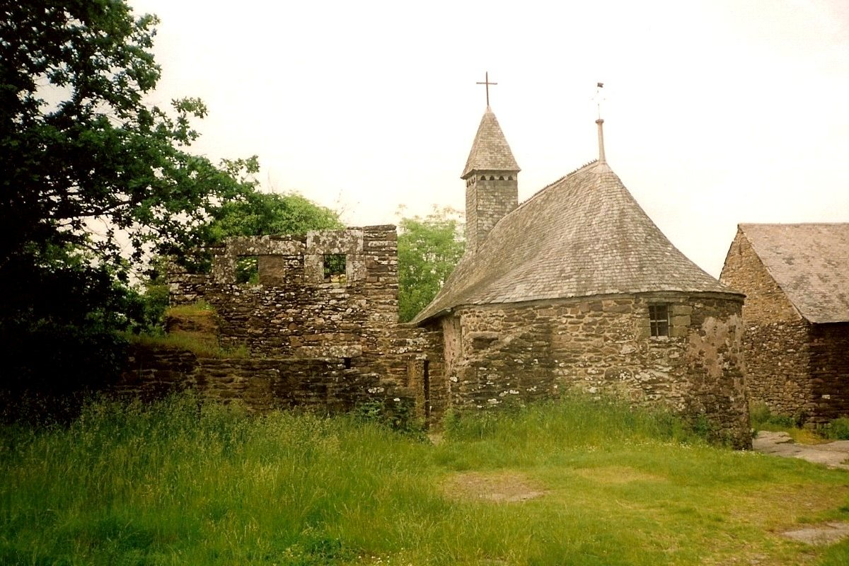 Saint John Chapel, Kempenieg, Morbihan, Brittany .